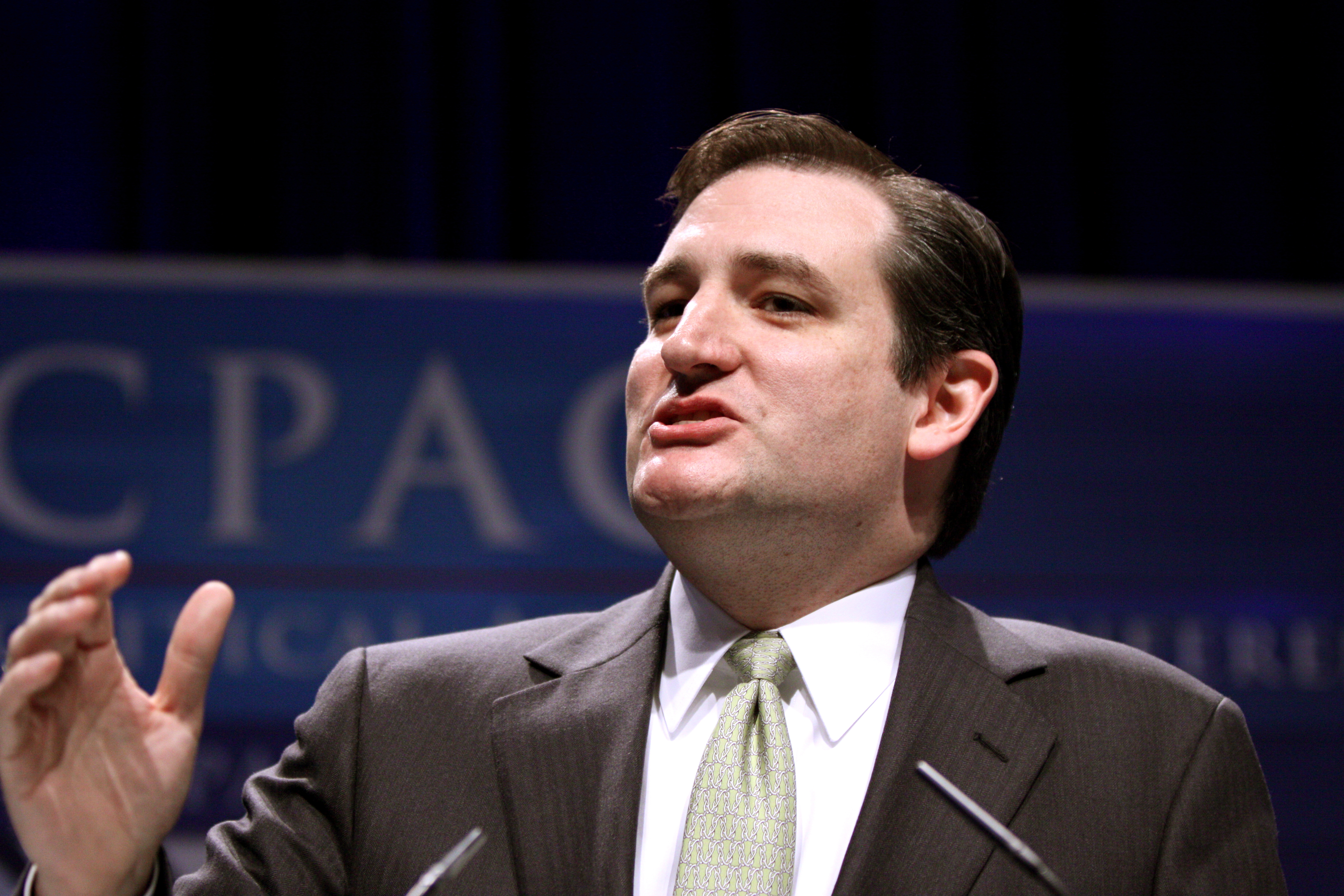 Ted Cruz, former Texas Solicitor General, speaking at CPAC 2011 in Washington, D.C.